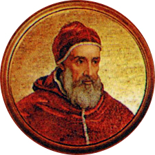 Portrait of Pope Paul IV